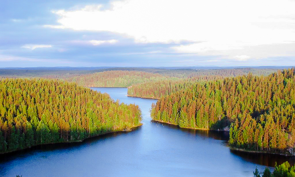 Repovesi National Park in early morning summer sun, in Kouvola, Finland